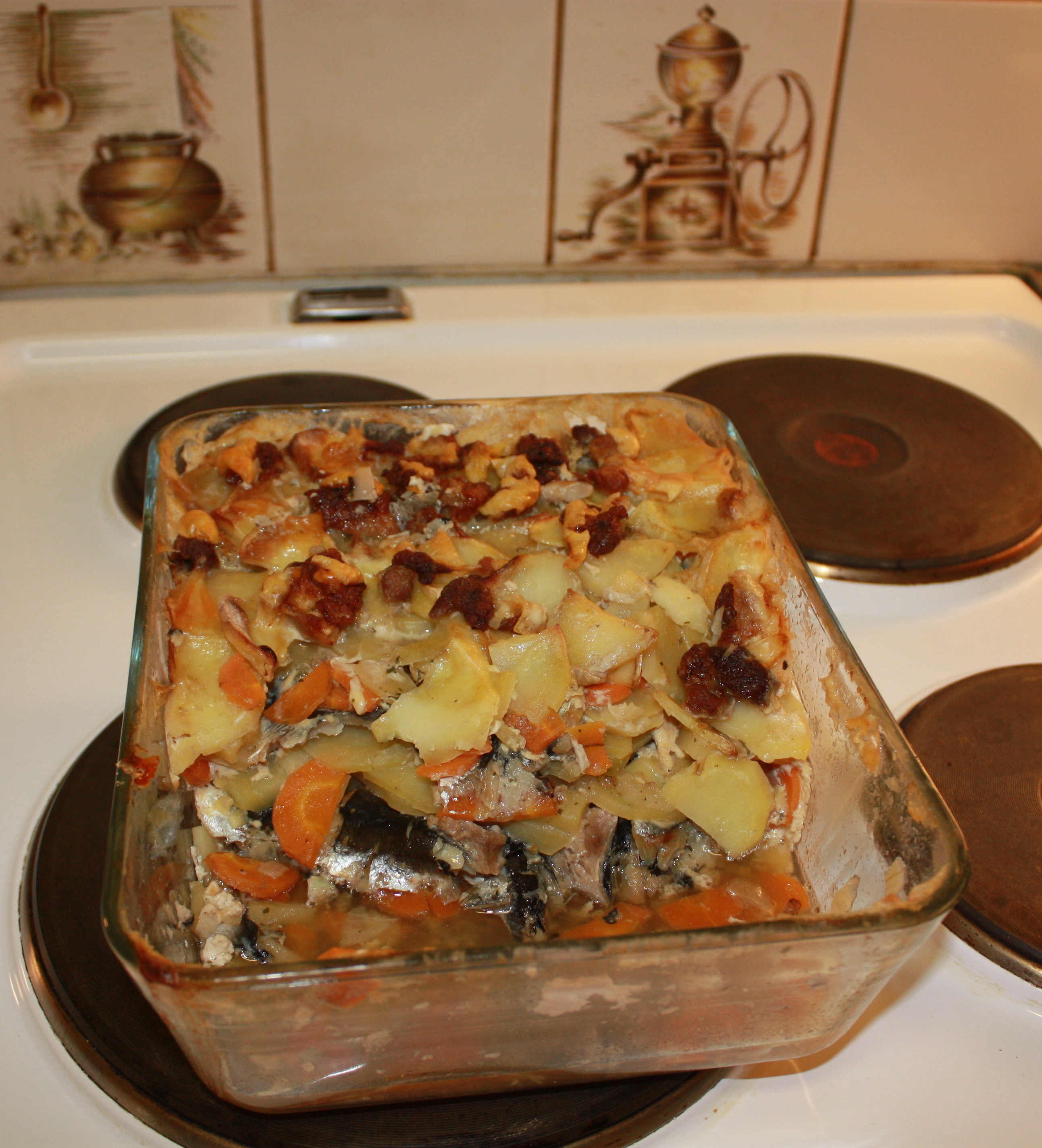 Traditional Finnish food made in the oven: Herring casserole contains also pork, potato, onion, and carrots as well as milk and eggs and some salt and pepper. Maybe carrots do not belong, but I like them.